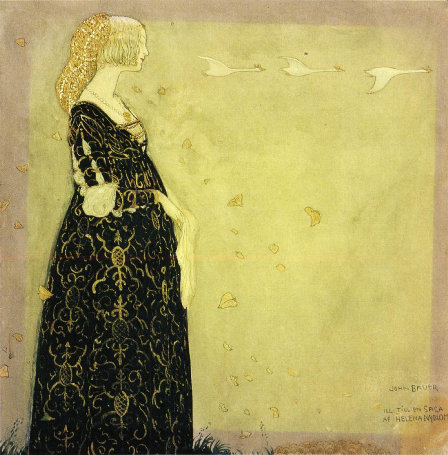 Illustration for "Svanhamnen" (The Swan maiden) by Helena Nyblom in "Bland tomtar och troll" (Among gnomes and trolls), 1908. See also Image:Swan princess crying by John Bauer 1908.jpg, Image:Swan princess hiding by John Bauer 1908.jpg and Image:Swan princess by John Bauer 1908.jpg from the same story.